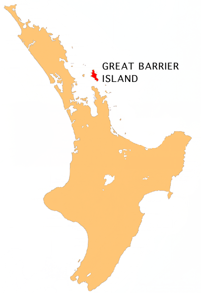 Location map of Great Barrier Island, New Zealand.